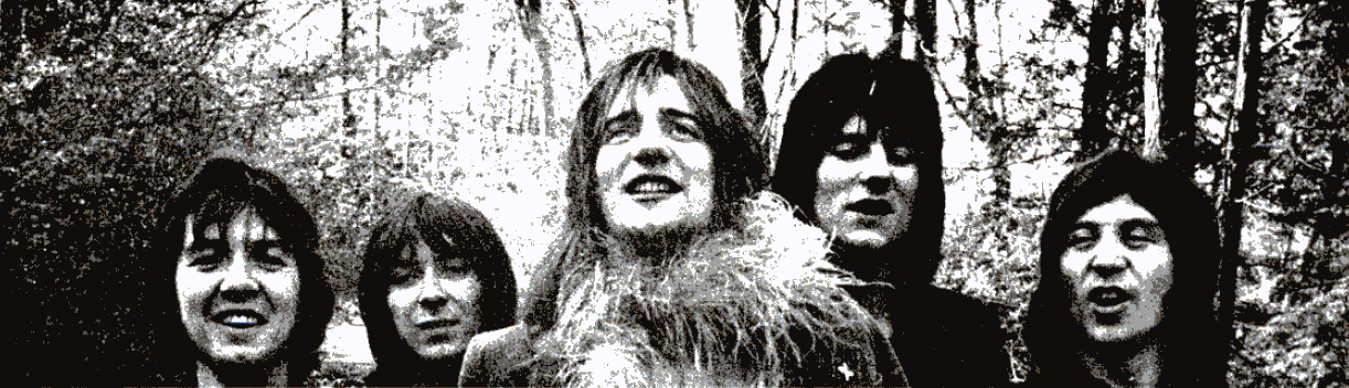 Trade ad for Faces's album First Step. To better adapt it to his respective Wikipedia article, the ad was cropped and cleaned in a graphics editing program. The original can be viewed at the source below.